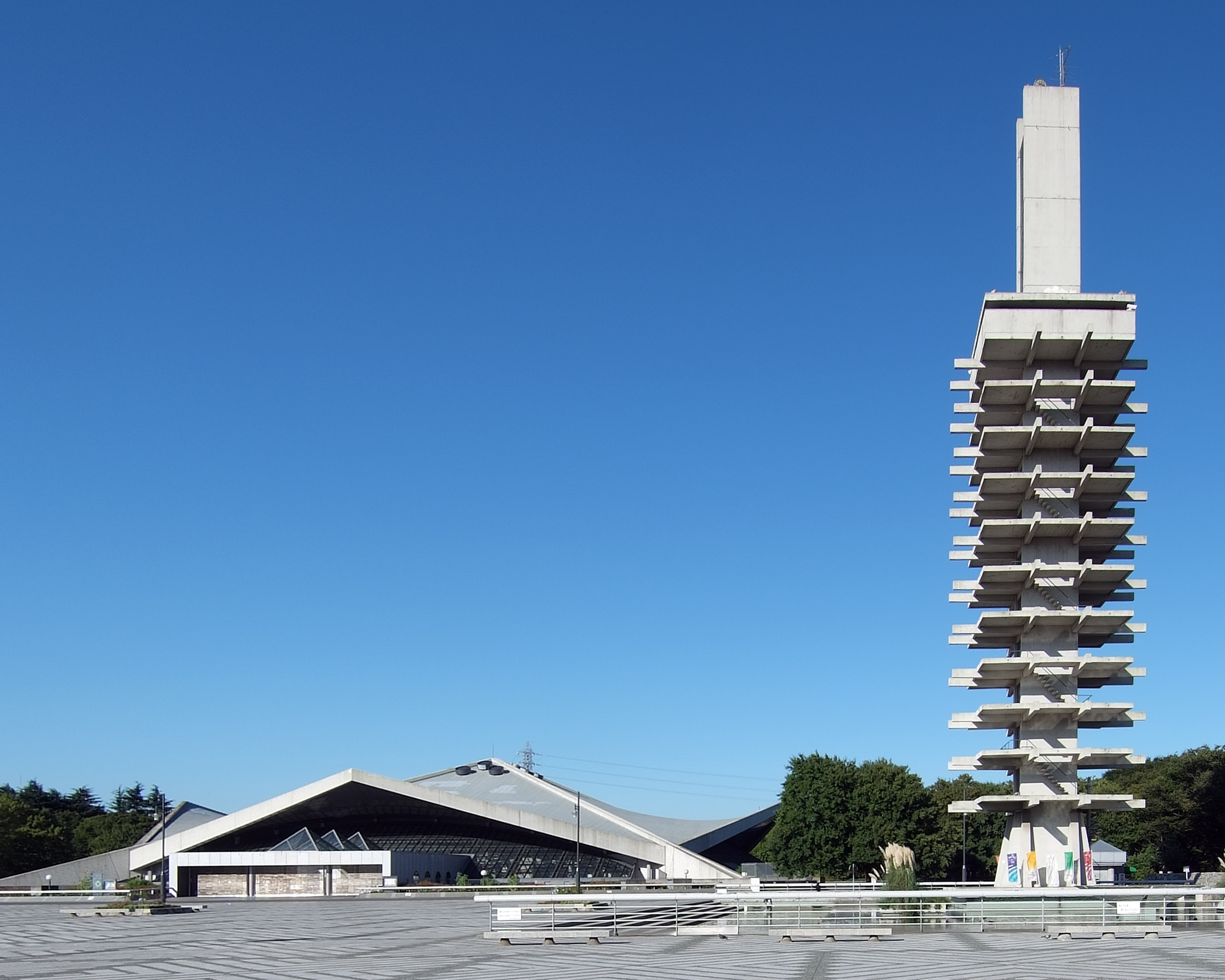 Komazawa Gymnasium & Control Tower, at Setagaya-ku Tokyo Japan, design by Yoshinobu Ashihara in 1964.